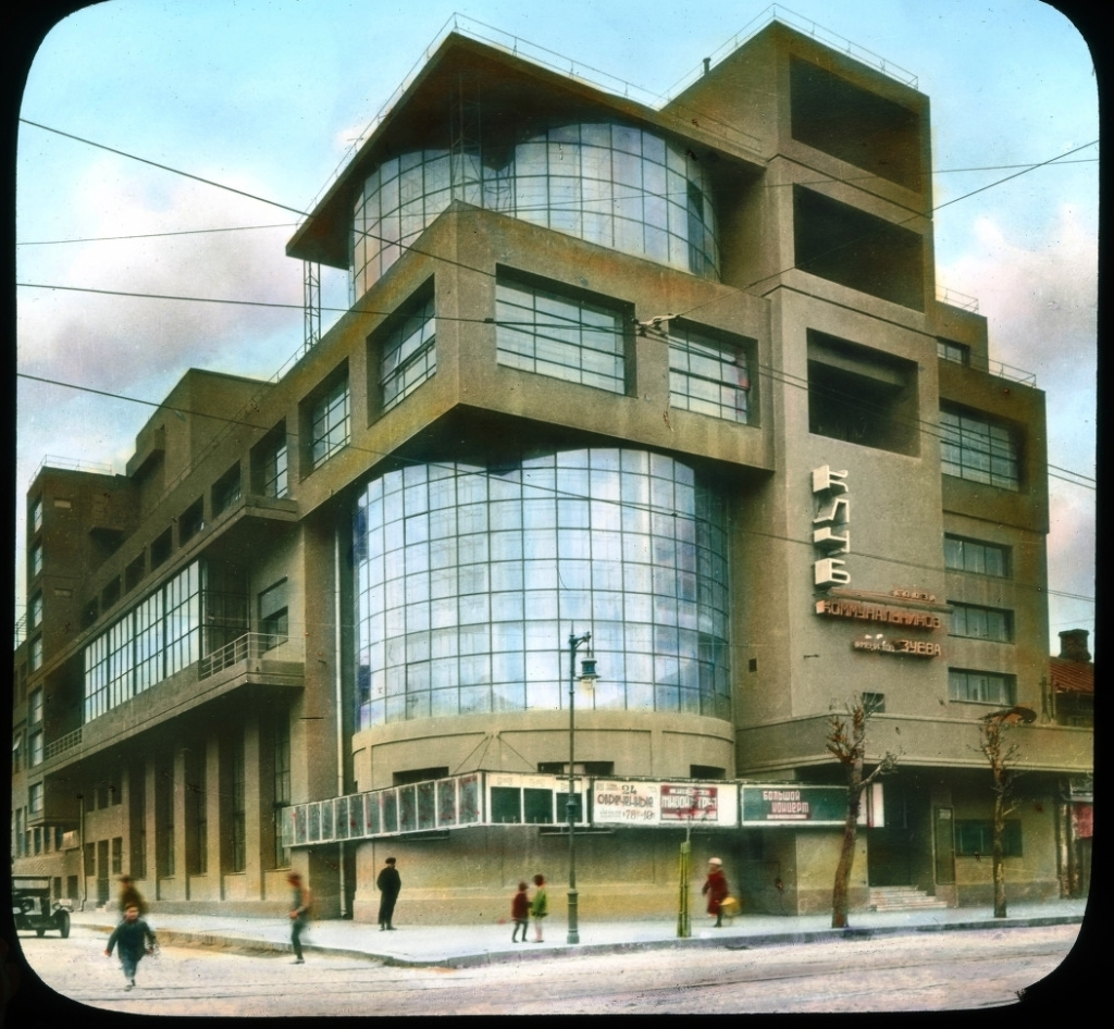 The Zuev Workers' Club — at Lesnaya Street and Miusskaya Street, in Moscow in 1931. Example of Russian Modernist and Constructivist architecture in Moscow.